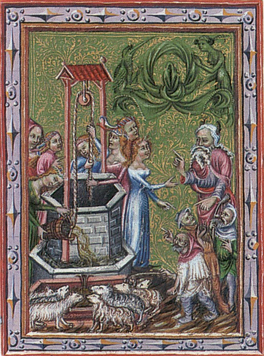 Bible of Wenceslaus IV.